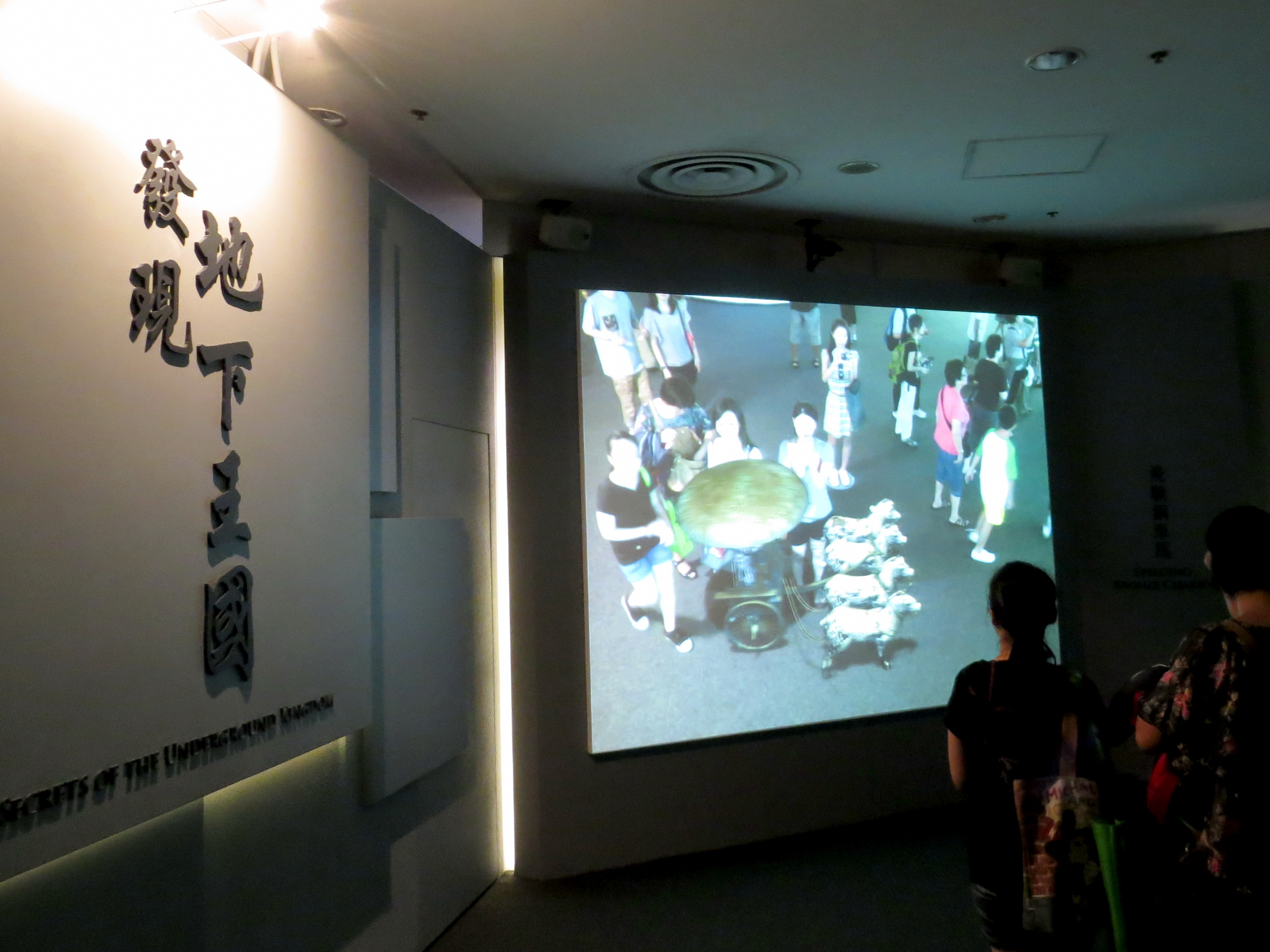 Secrets of the Underground Kingdom (Multimedia Zones), The Majesty of All Under Heaven Exhibition, Hong Kong Museum of History.